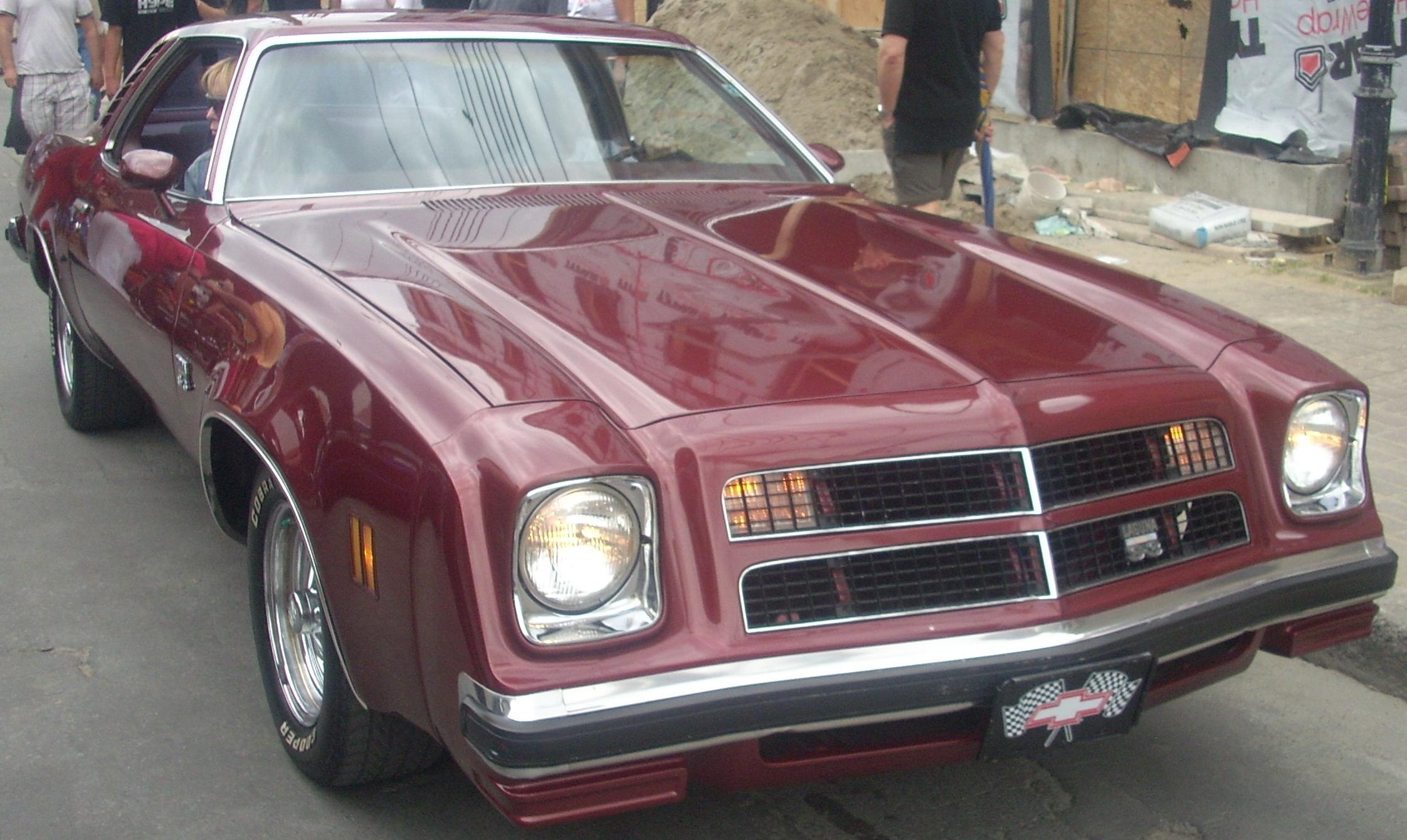 1976 Chevrolet Chevelle Laguna Type S-3 Coupe photographed in Ste. Anne De Bellevue, Quebec, Canada at Cruisin' At The Boardwalk 2010.